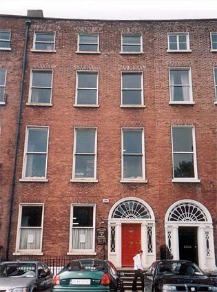 Photograph of the Central Catholic Library, Dublin, taken by me with permission to release under GFDL. Scanned by me.